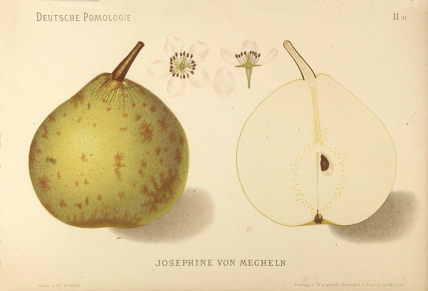 Page 31 from Deutsche Pomologie — Birnen, by Wilhelm Lauche, 1882. Published by Deutsche Pomologen-Vereins (German Pomological Society). Part of a series from the same book. The others can be found in Category:Deutsche Pomologie - Birnen Depicted pear cultivar: Josephine von Mecheln